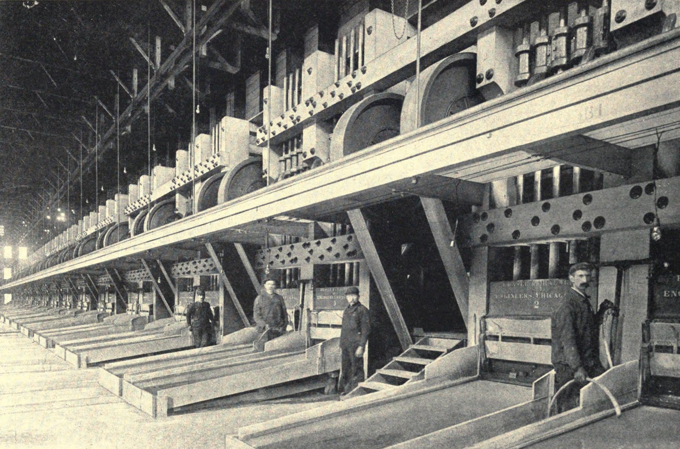 A large stamp mill used to crush gold ore at the Treadwell mine in Alaska. Compare File:Földrajzi Közlemények 1902-XXX-IV, Treadwell aranybánya (aranymosó).jpg where this or a similar setup is photographed in or after use. The present photograph is probably much older than its publication date and looks like it might be from the inauguration of the mill.